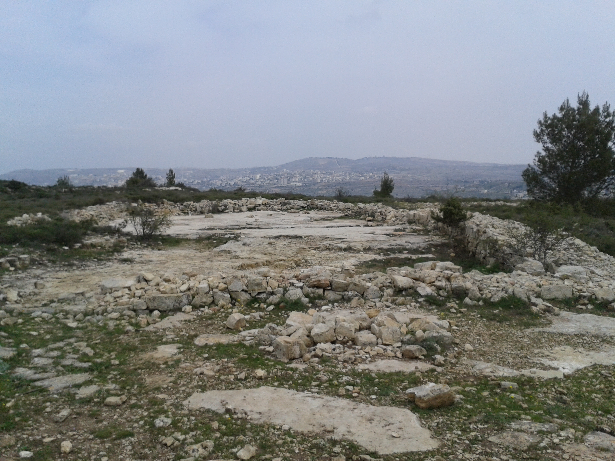 This image was taken as part of the Elef Millim project trip to "Jacob's dream", in Bethel which was held on Friday, 17th March 2017. To view all images uploaded as part of the Elef Millim Project